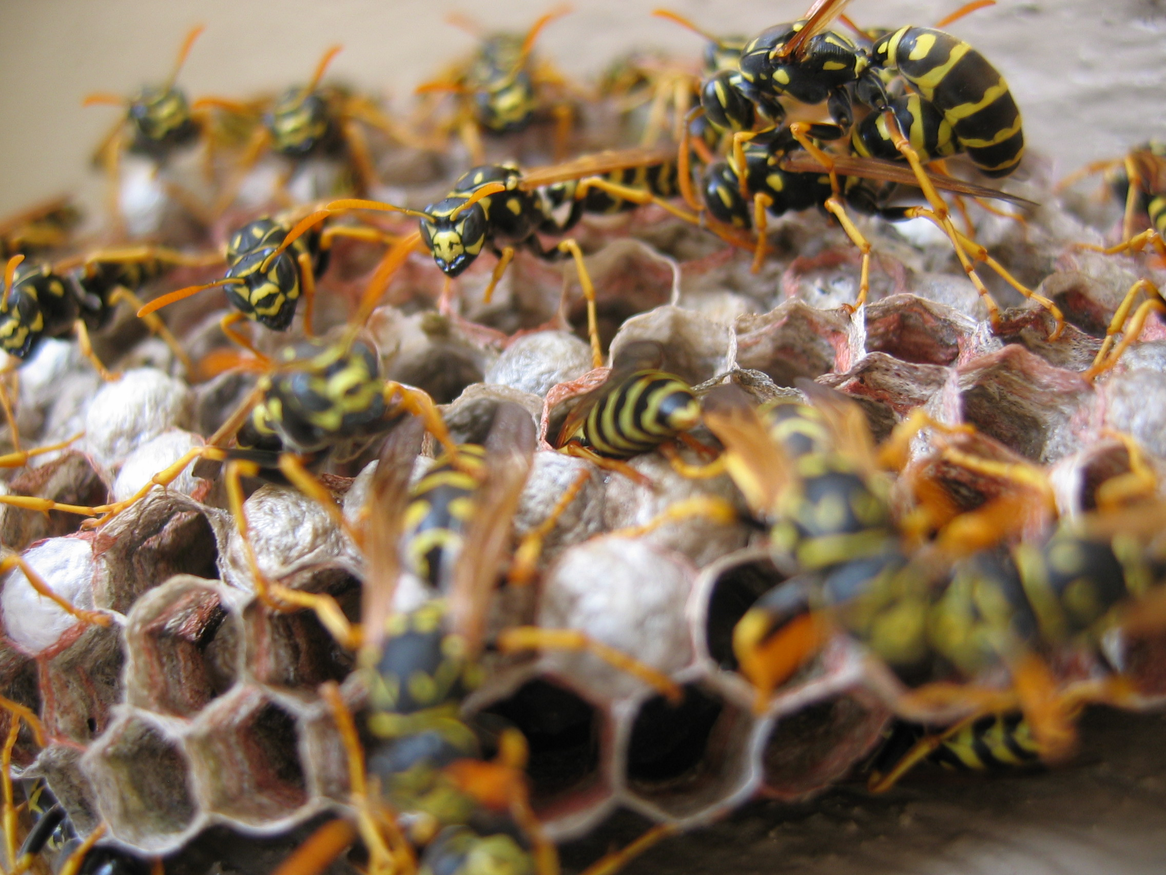 Wasps busily nesting.